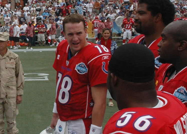 American Football player Peyton Manning talks to teammates before the 2005 Pro Bowl game